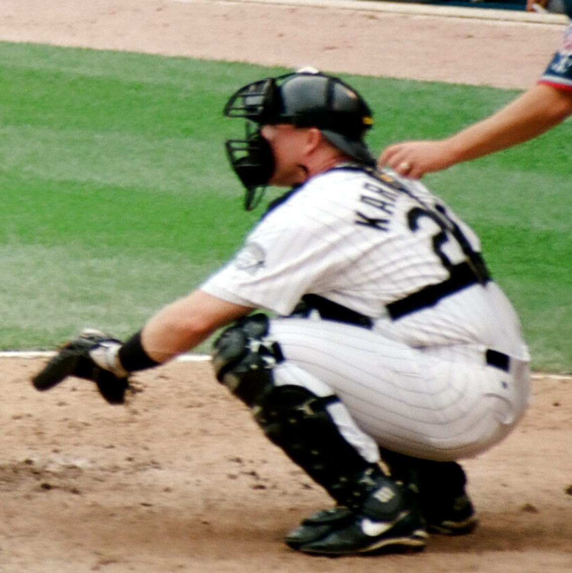 Ken Griffey Jr. – Seattle Mariners at Chicago White Sox.